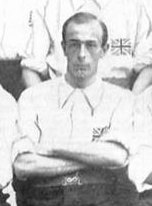 The English amateur national team, winners of the football tournament at the 1908 Summer Olympics held in London. Standing, from left to right: FA president Lord Arthur Kinnaird, Kenneth Hunt, Walter Corbett, Herbert Smith, Horace Bailey, Frederick Chapman, Robert Hawkes, Alfred Davis (coach). Sitting, from left to right: Arthur Berry, Harold Stapley, Vivian Woodward, Clyde Purnell, Harold Hardman.